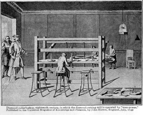 Kunz: Shakespeare and Precious Stones, book in Public Domain, Image is reprint of 18th century illustration so certainly in PD